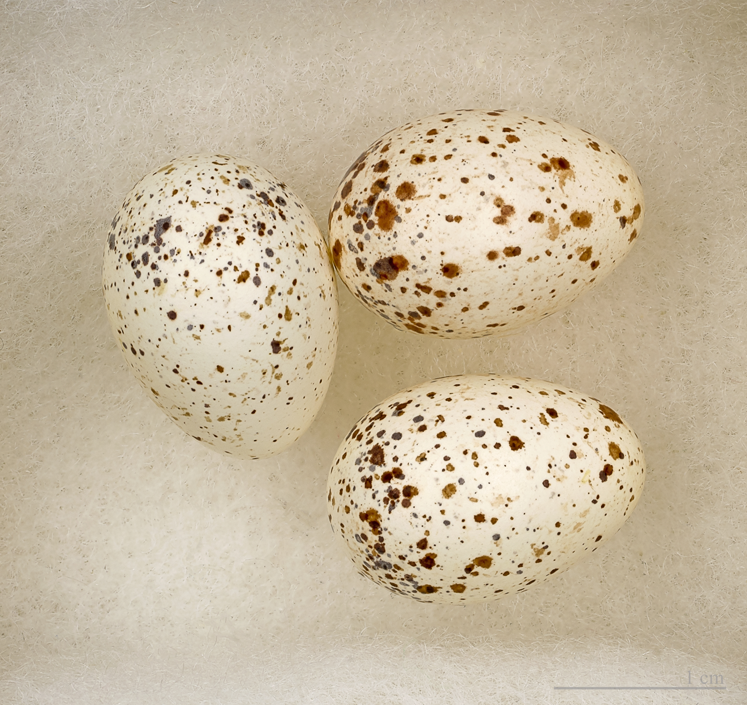 Egg of Ethiopian Swallow. Collection of Jacques Perrin de Brichambaut.